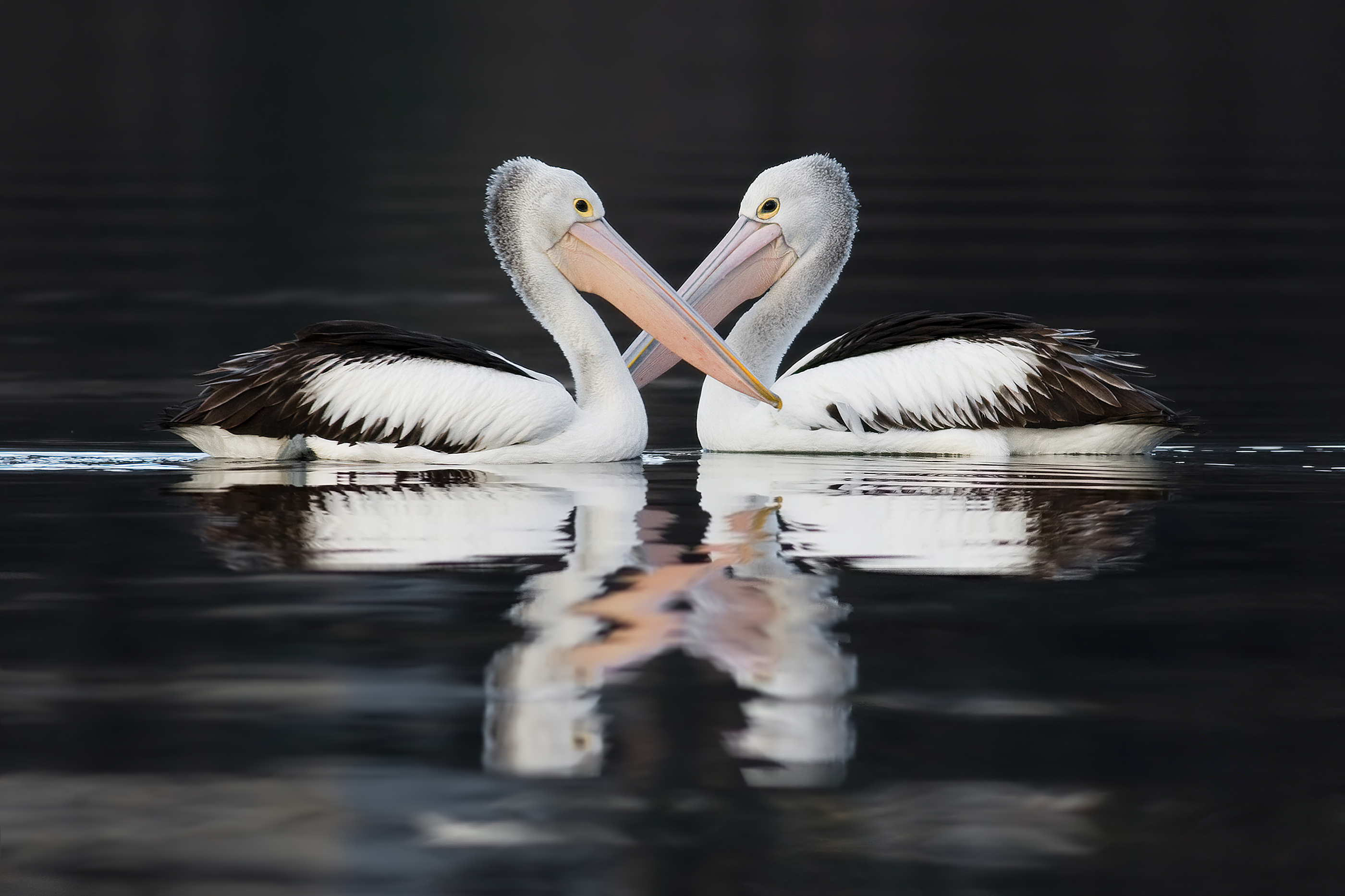 Australian Pelicans (Pelecanus conspicillatus), Claremont, Tasmania, Australia.